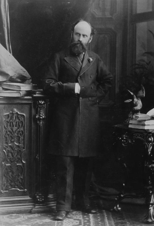 Photograph: J. McShane, Montreal, QC, 1880, by Notman & Sandham. Silver salts on paper mounted on paper, Albumen process, 15 x 10 cm